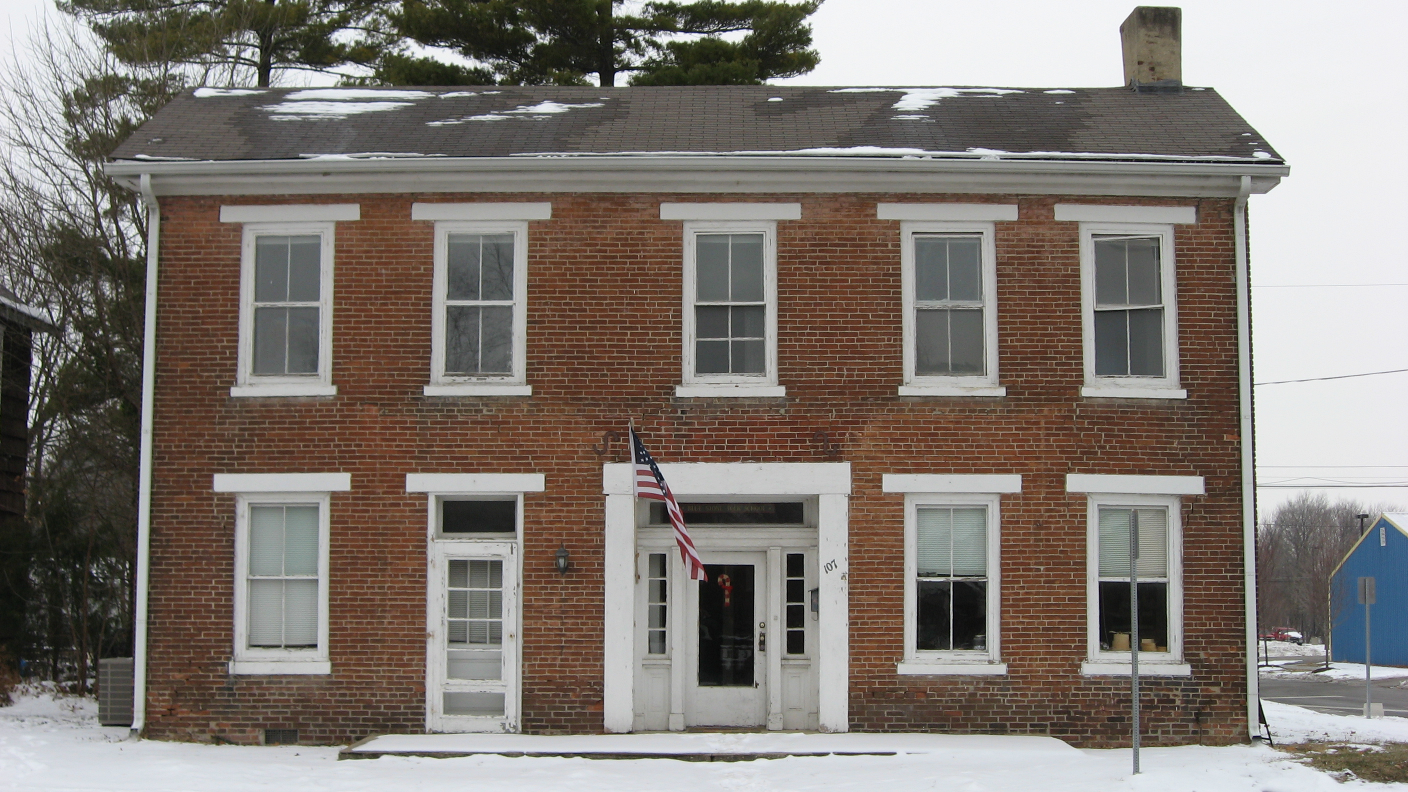 Front of the Judge Earl S. Stone House, located at 107 S. Eighth Street in Noblesville, Indiana, United States. Built in 1849, it is listed on the National Register of Historic Places.